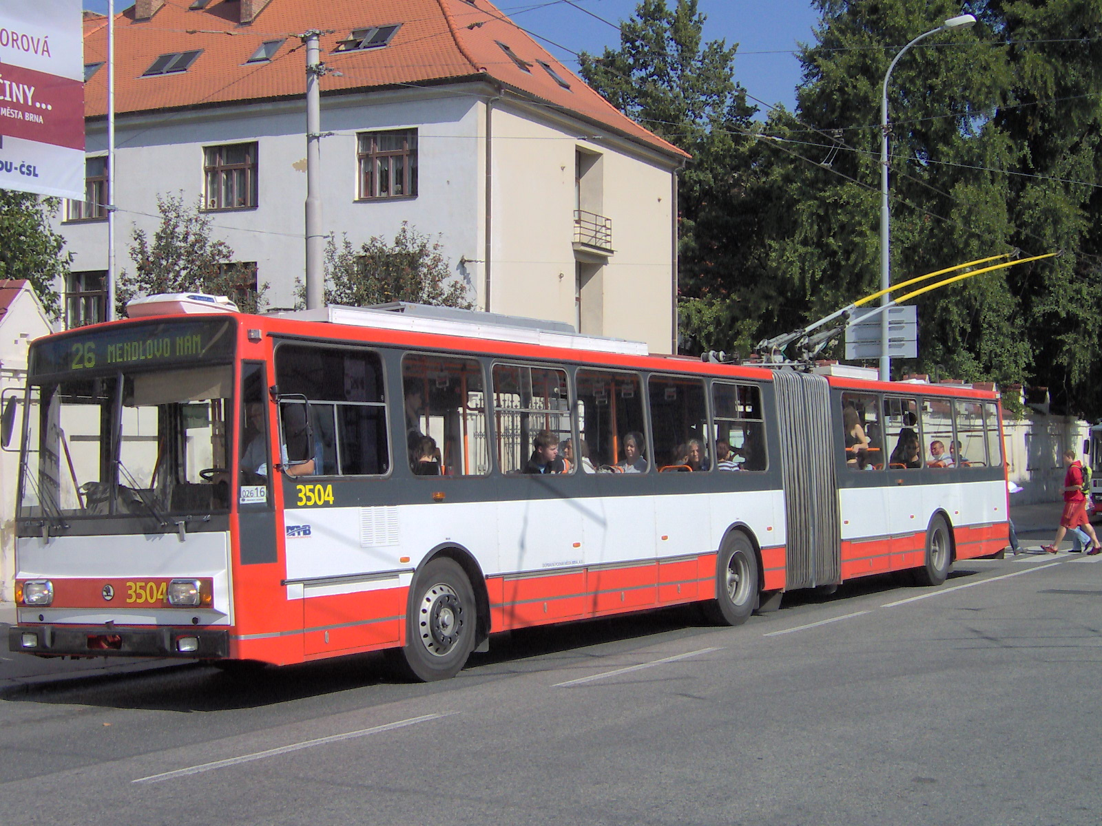 Škoda 15TrR trolleybus in Brno